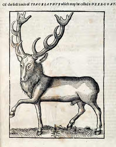 This woodcut is an illustration from the book The history of four-footed beasts and serpents by Edward Topsell, printed by E. Cotes for G. Sawbridge, T. Williams and T. Johnson in London in 1658.